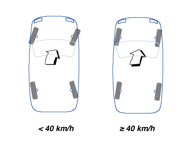 4WS schematic drawing Personal picture